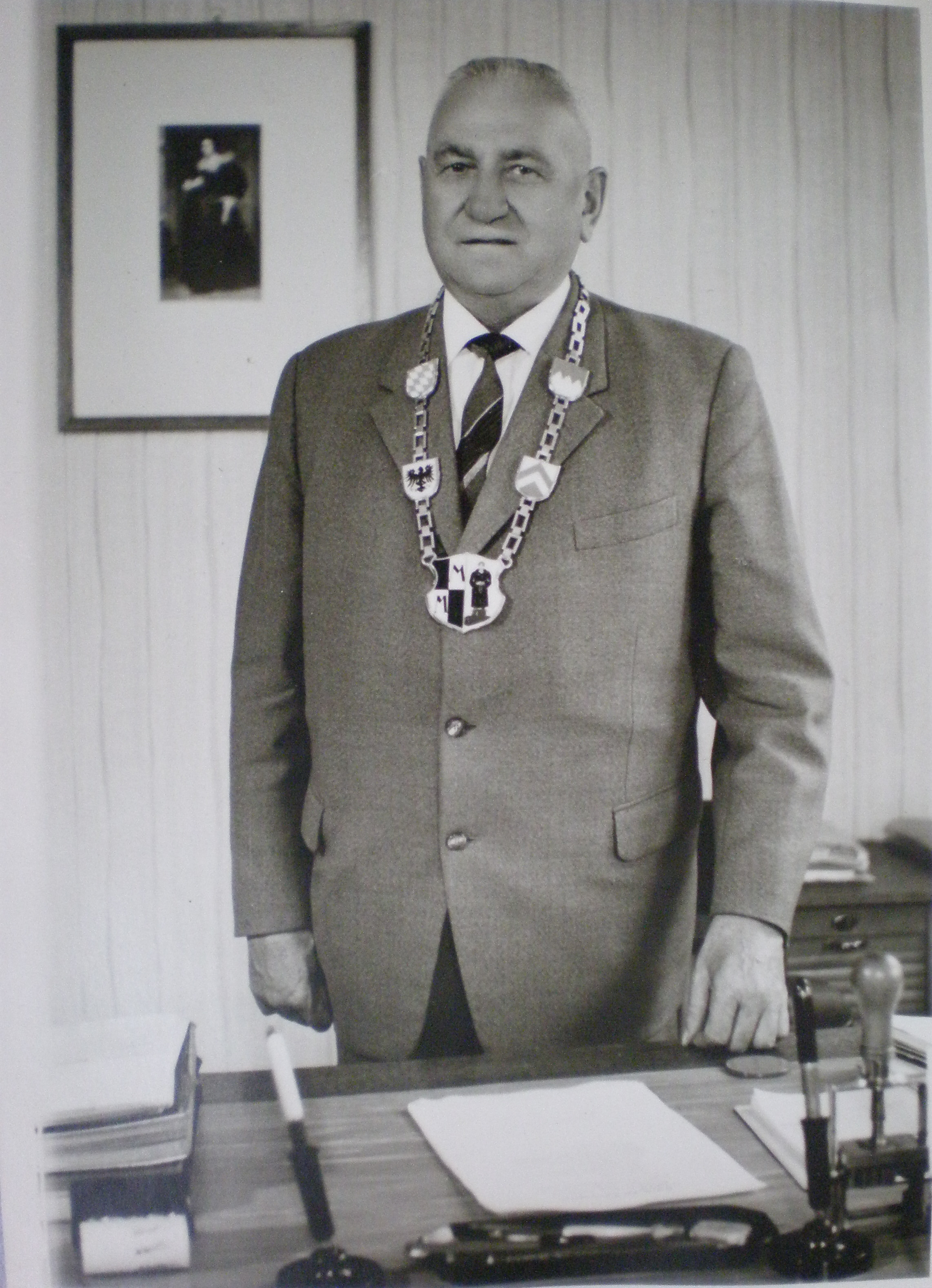 The former mayor of Münchberg Max Specht.